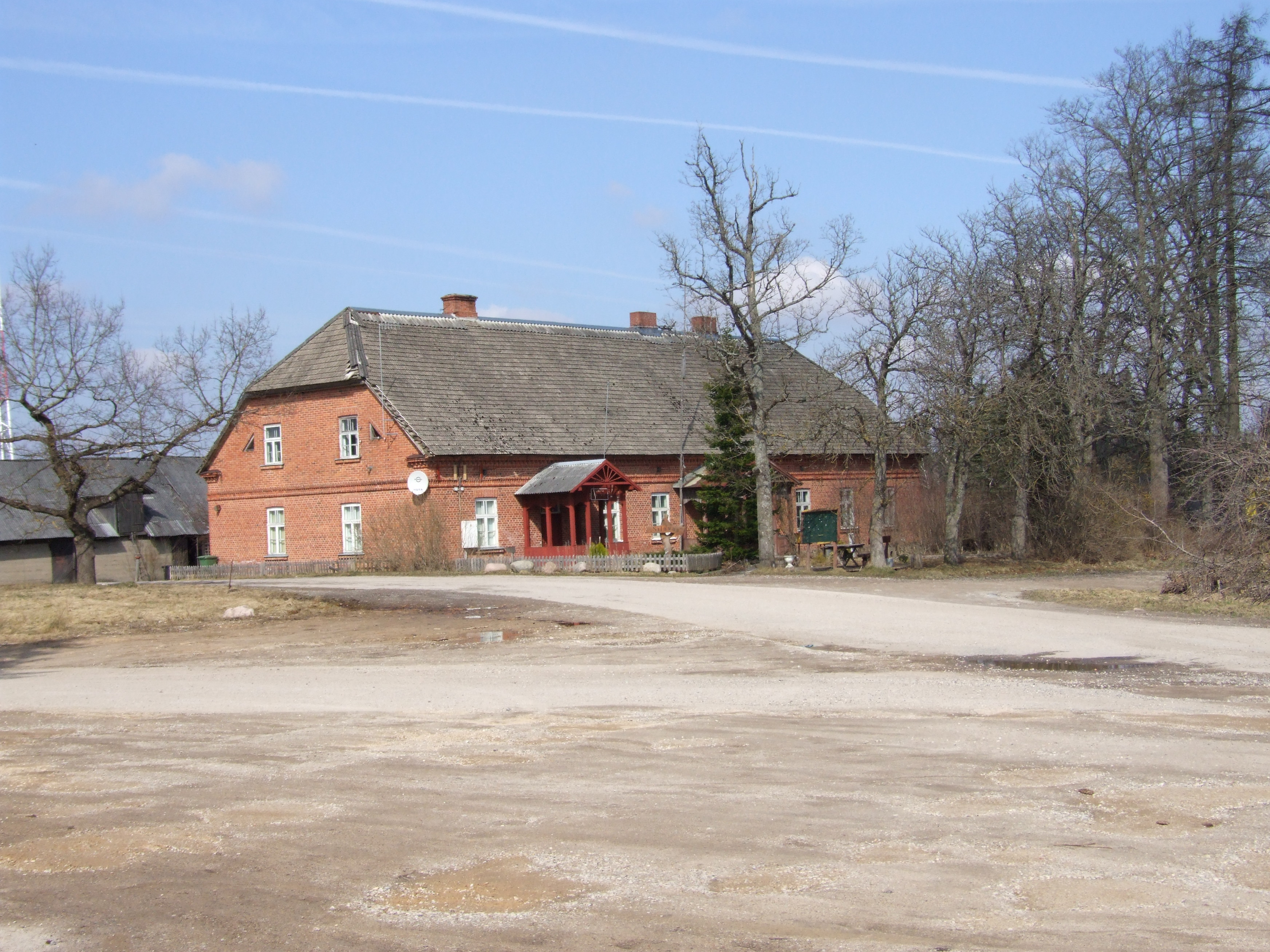 Former Stende parish administration building in Ģibuļi